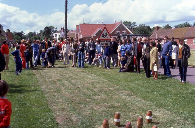 Silver Jubilee celebrations, Twyning Green Queen Elizabeth II's Silver Jubilee celebrations on Twyning Green. Traditional skittles is being played here, this is a popular game in this area of the country. Skittles is normally played in pubs and there are many teams playing in local organised leagues. I believe this was a game banned by Parliament during the Commonwealth in the 17th century which explains why it is popular in the areas which tended to support the Royalists.